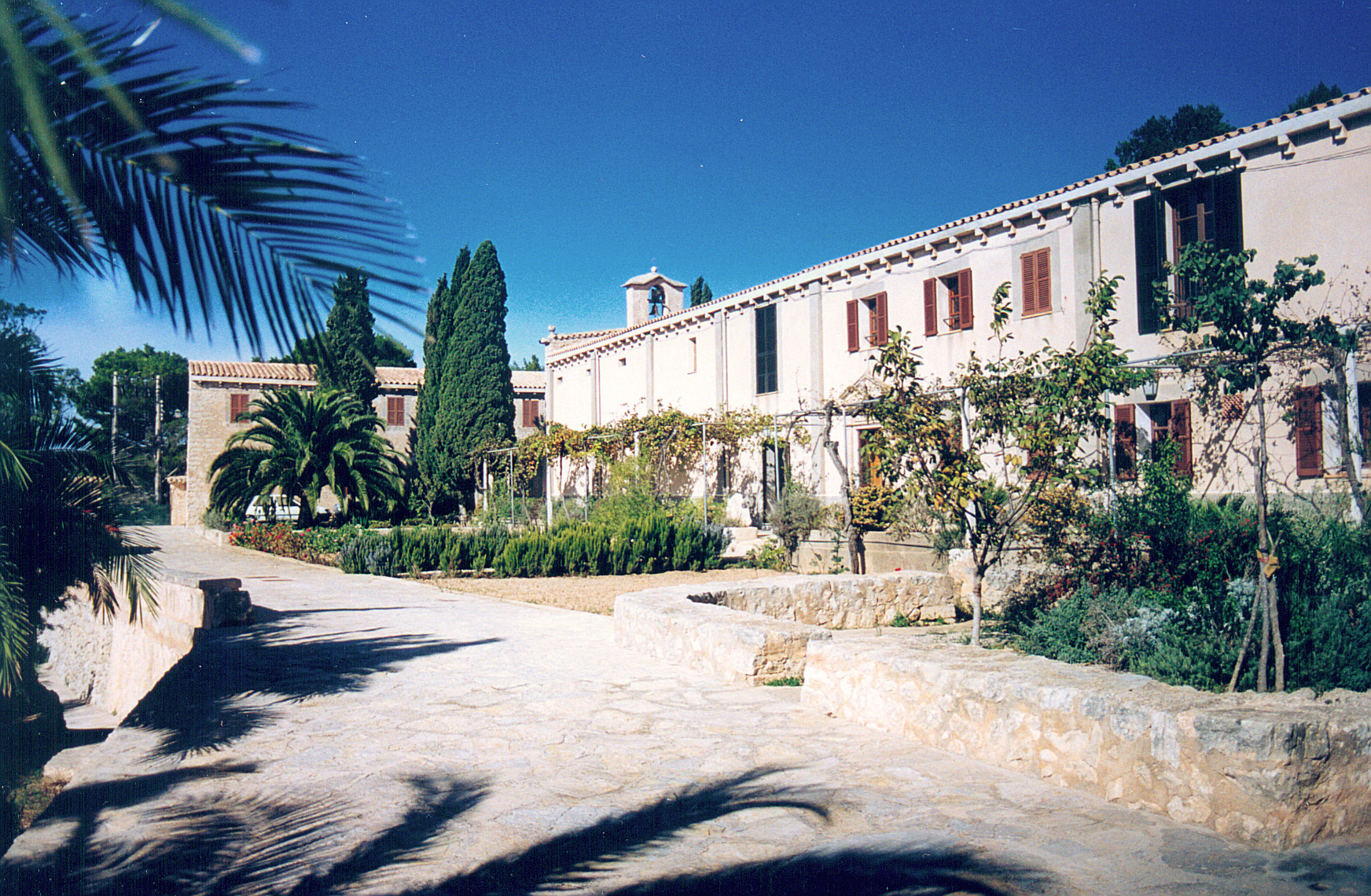 Monastery Sant Honorat in Randa, Mallorca.